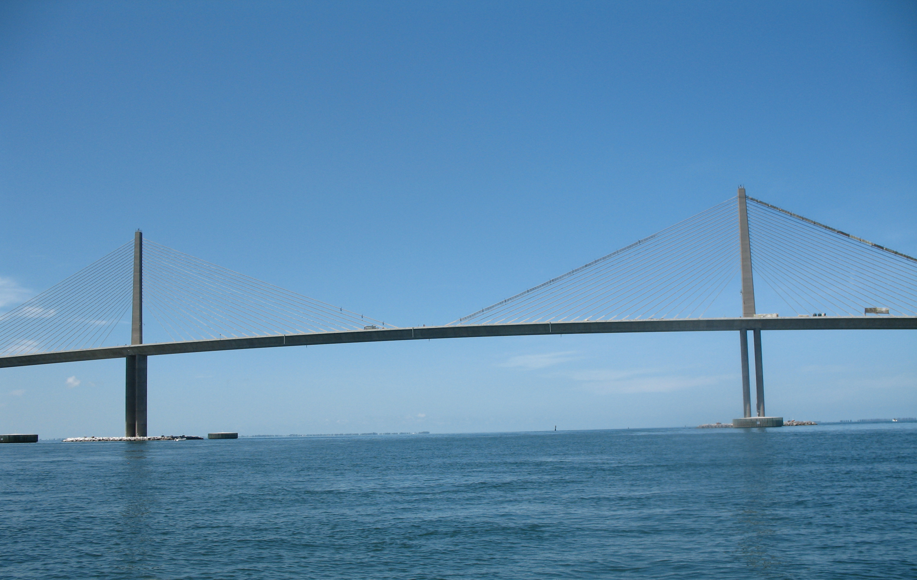 Photograph of the Sunshine Skyway Bridge taken from the water below